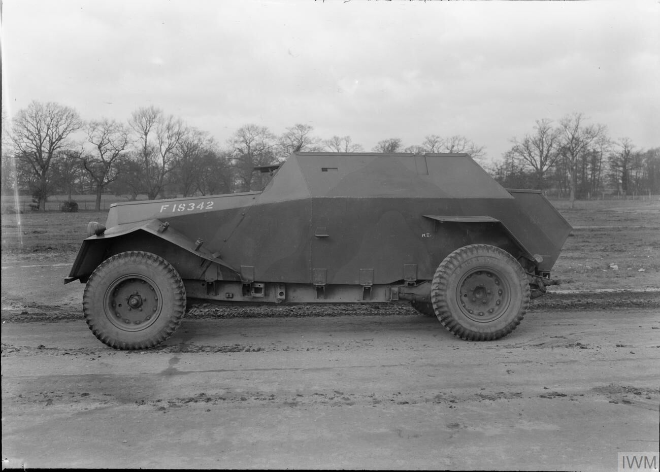 Tanks and Afvs of the British Army 1939-45 Humber I light reconnaissance car (Ironside I)